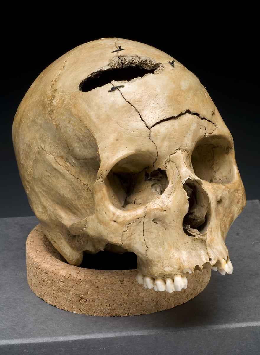 Skull showing keyhole gunshot trauma, about 1861-1865